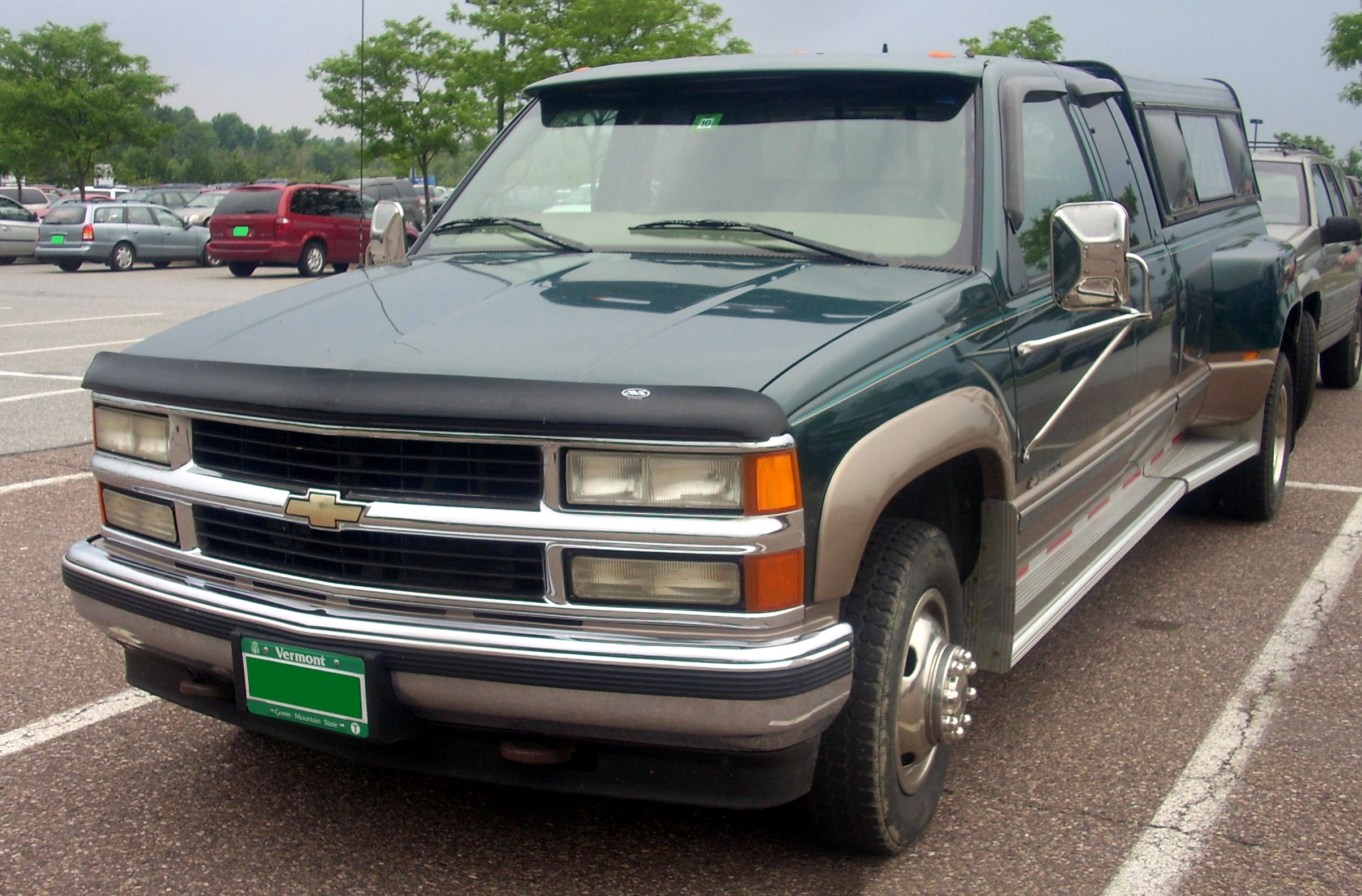 1997-1999 Chevrolet C/K photographed in Williston, Vermont, USA.